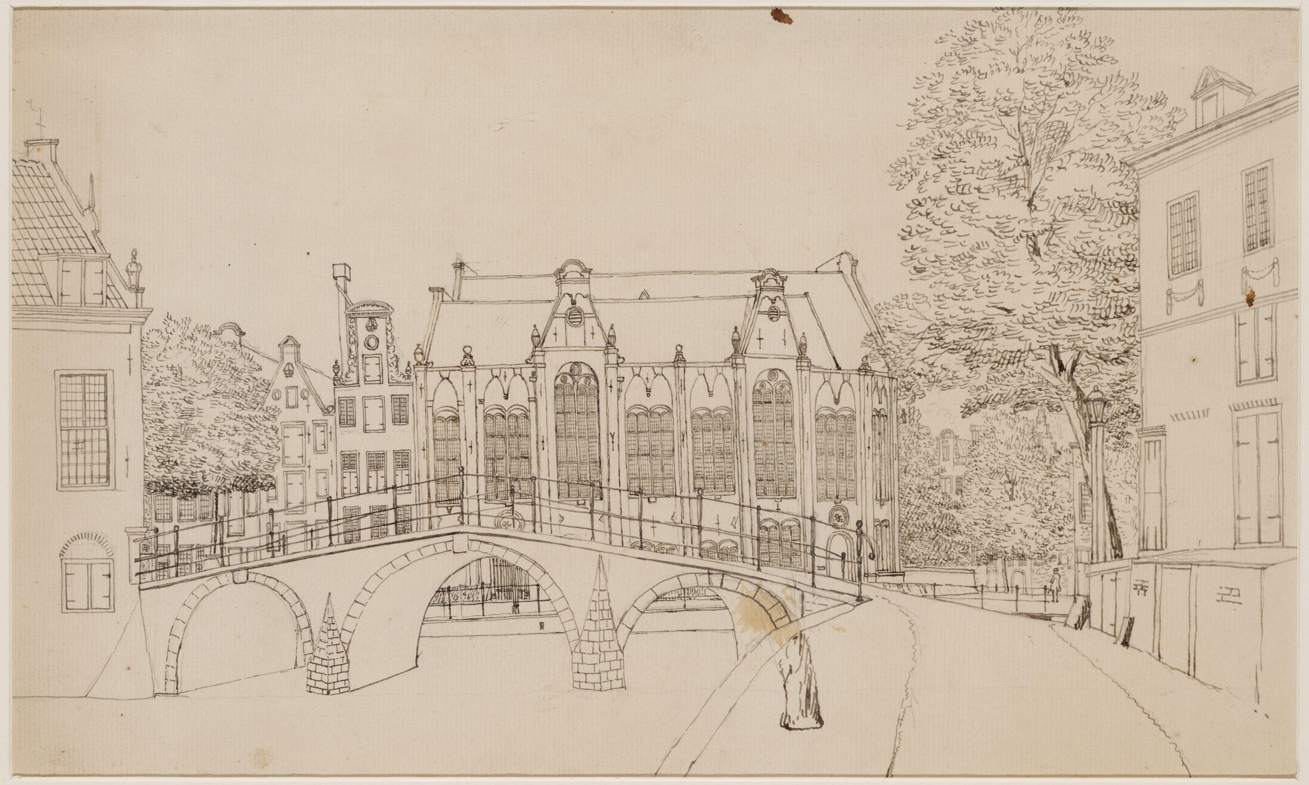 Jan Spaan. The Spui in Amsterdam seen from the Nieuwezijds Voorburgwal towards the Oude Lutherse Kerk. 1760-1780. Pencil and ink on paper (?). Dimensions unknown. Amsterdam, Stadsarchief Amsterdam (inv.nr. 010097001241).